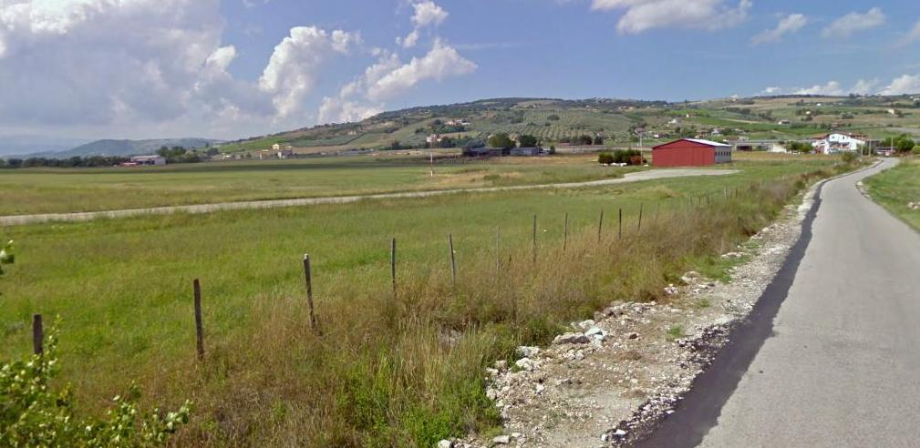 aviosuperficie Contrada Olivola Benevento